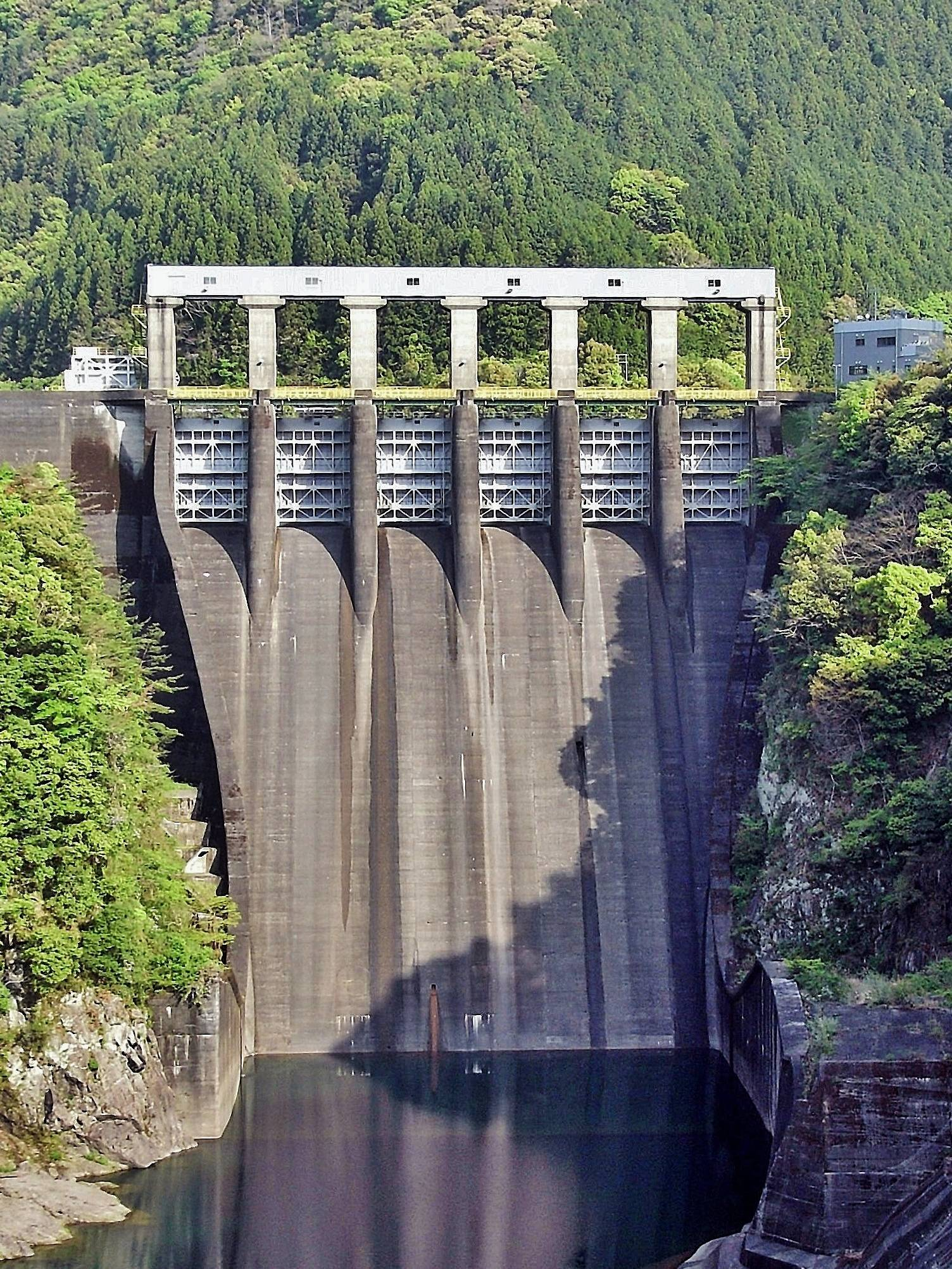 Nagayasuguchi Dam.